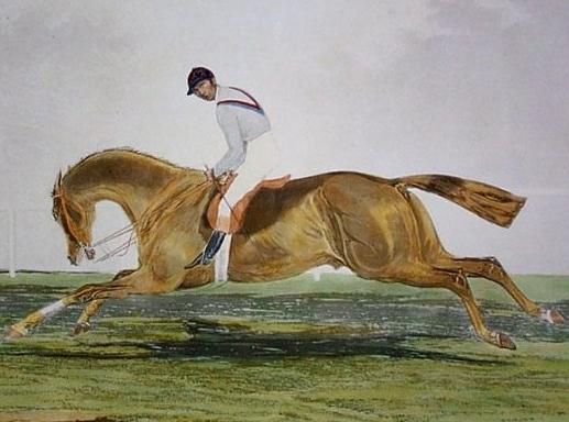 Painting (coloured engraving) of 1874 Derby winner George Frederick by unknown artist.